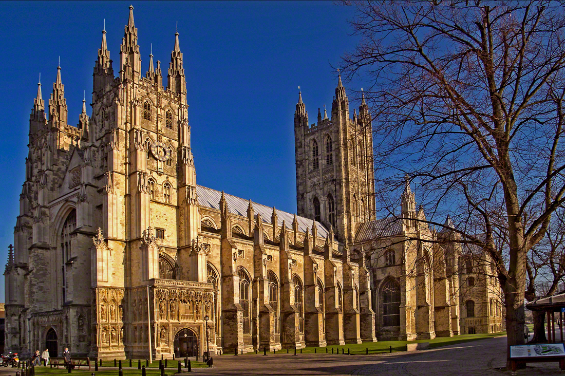 Canterbury Cathedral UK from the south-west